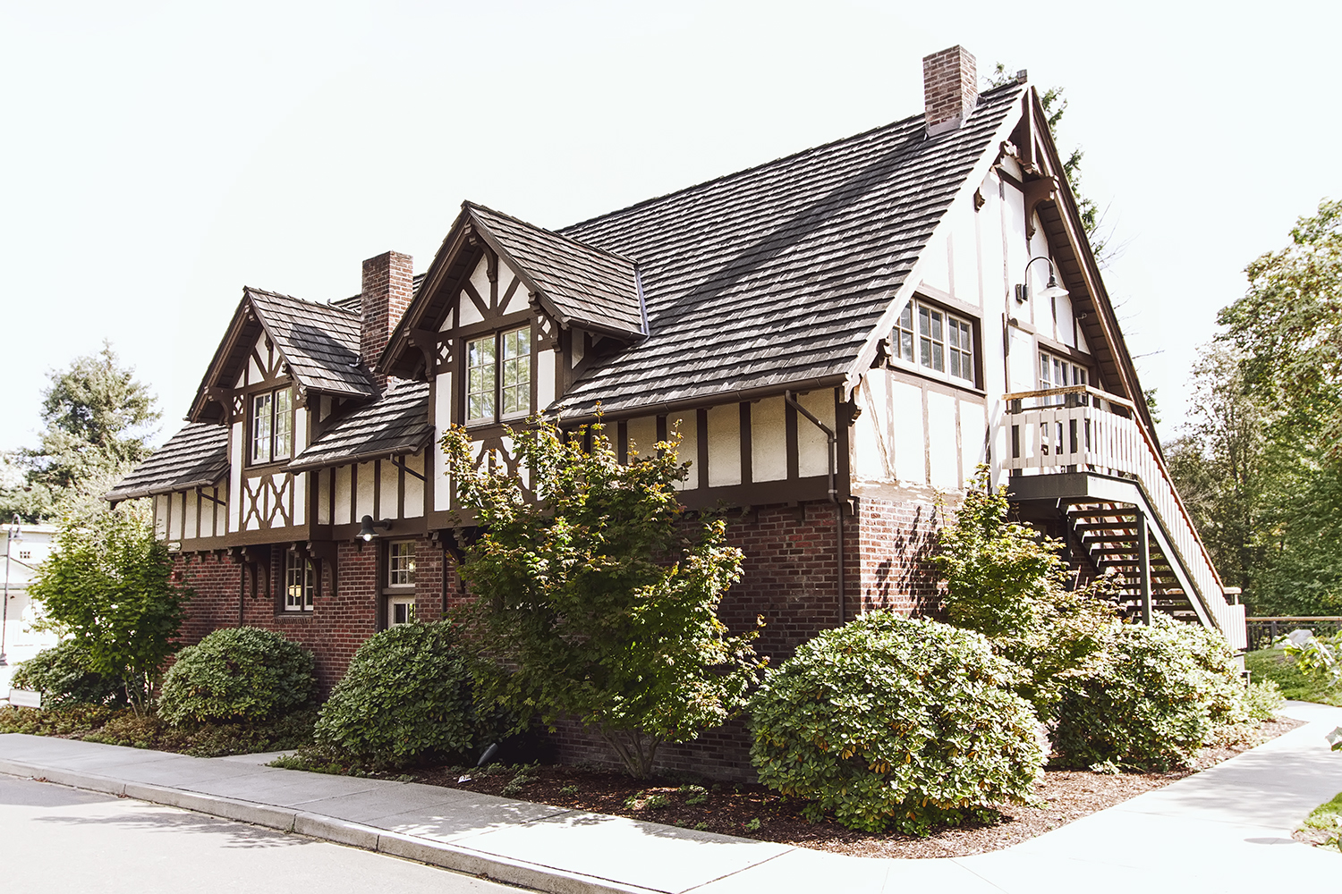 Wickers Building (South Snohomish County Visitor Information Center). Lynnwood, WA.